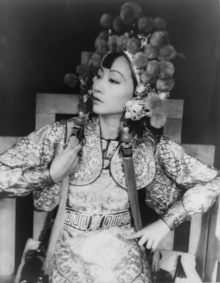 Portrait of Anna May Wong, in Turandot